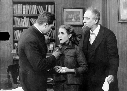 Film still from The New York Hat (1912).